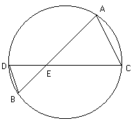 I created this image myself using MSPaint.